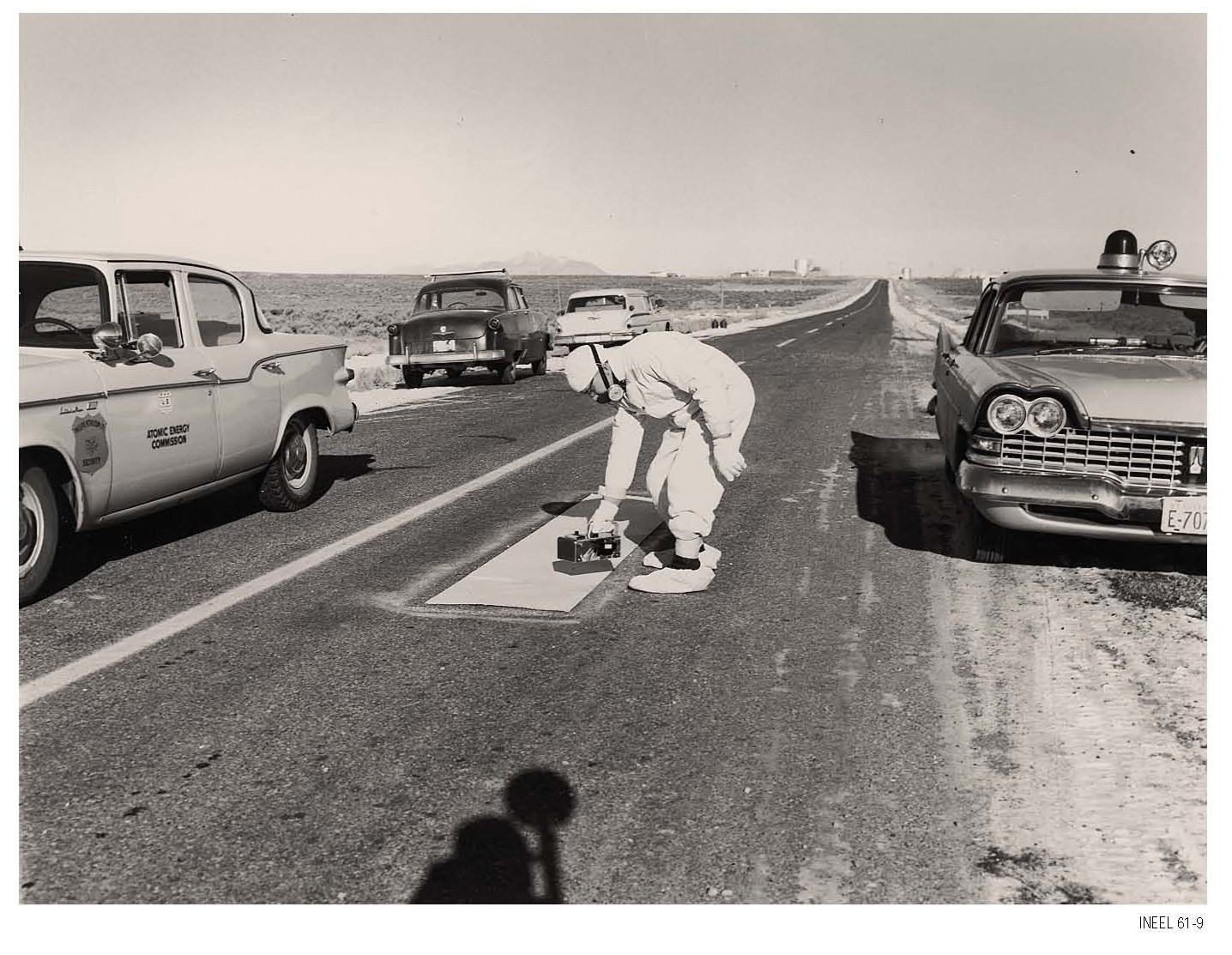 January 4, 1961: Health Physicists check Highway 20 for contamination on the morning after the SL-1 accident.